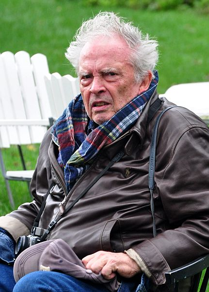 Photographer David Bailey attends press interviews at the 19th Hamptons International Film Festival on October 14, 2011 at the Maidstone Hotel in East Hampton, New York. (Photo:Nick Stepowyj)